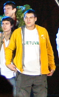 Jonas Mačiulis in front of the cheering crowd of Lithuanian basketball fans in Vilnius.